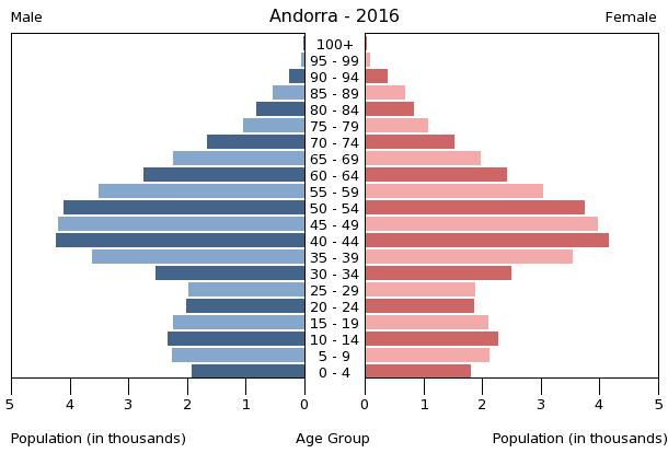 The population pyramid of Andorra illustrates the age and sex structure of population and may provide insights about political and social stability, as well as economic development. The population is distributed along the horizontal axis, with males shown on the left and females on the right. The male and female populations are broken down into 5-year age groups represented as horizontal bars along the vertical axis, with the youngest age groups at the bottom and the oldest at the top. The shape of the population pyramid gradually evolves over time based on fertility, mortality, and international migration trends.